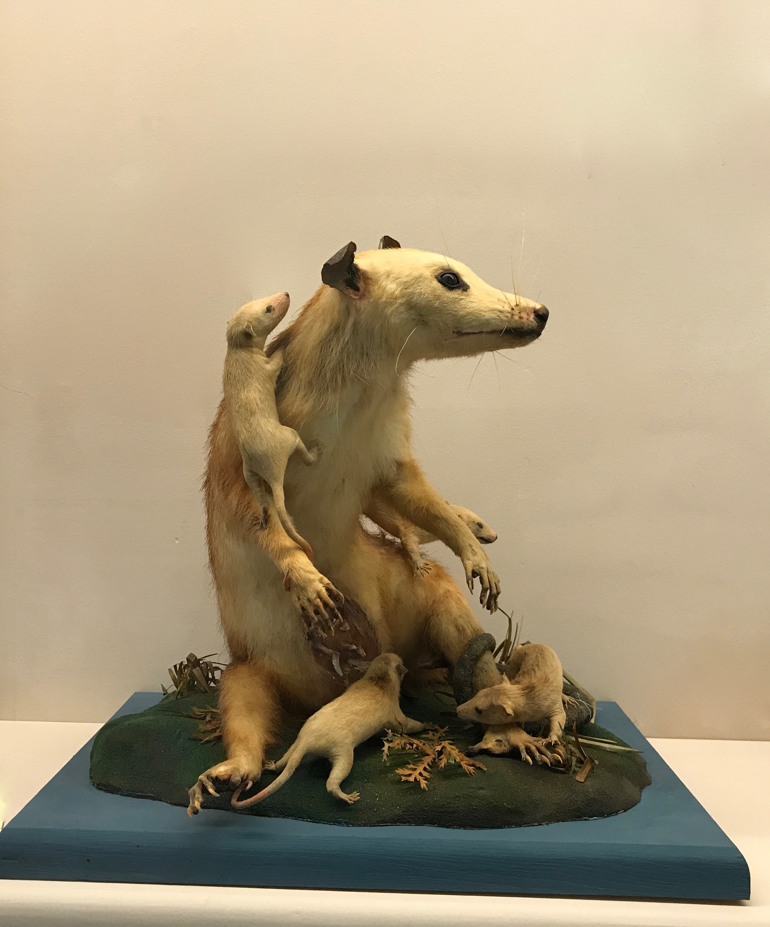 Virginia opossums diorama made by Savi at the University of Pisa Natural History Museum